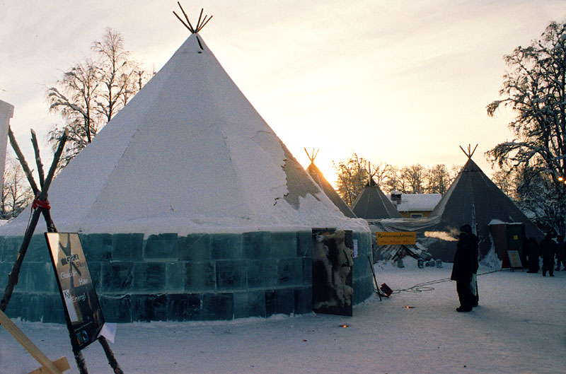 Tents on Jokkmokk winter market